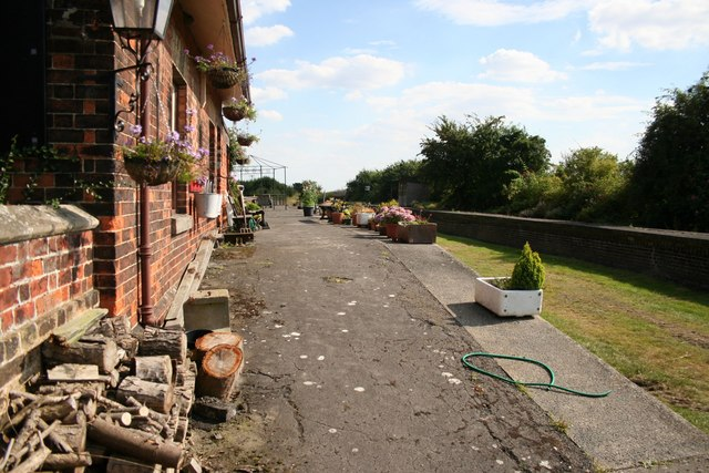 Woodhall Junction Station platform